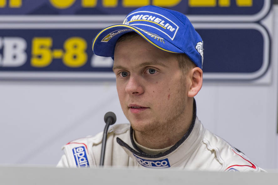 Rally Sweden 2014 Karl Kruuda,Motorsport,Rally,Rally Sweden,Rallye,Rallye Schweden,Pressekonferenz